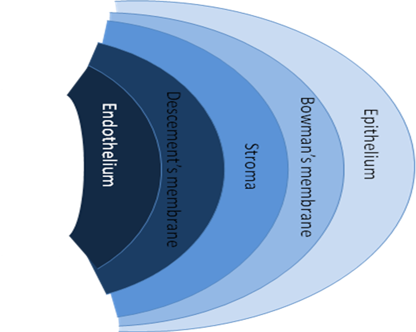 To illustrate the structure of the cornea